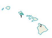 Image adapted from US fed gov't source Category:Congressional districts of Hawaii